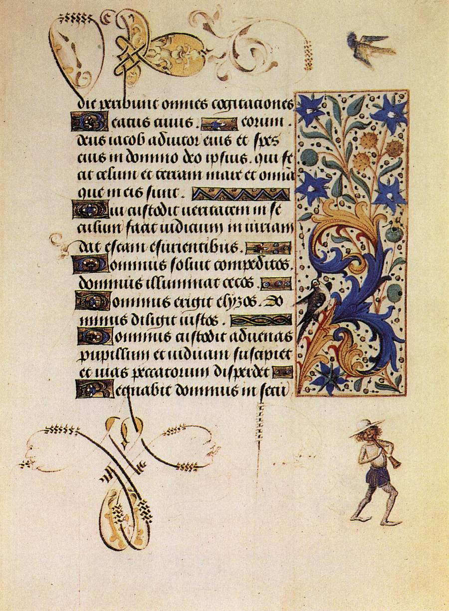 From the Mary of Burgundy's Book of Hours, Folio 152r